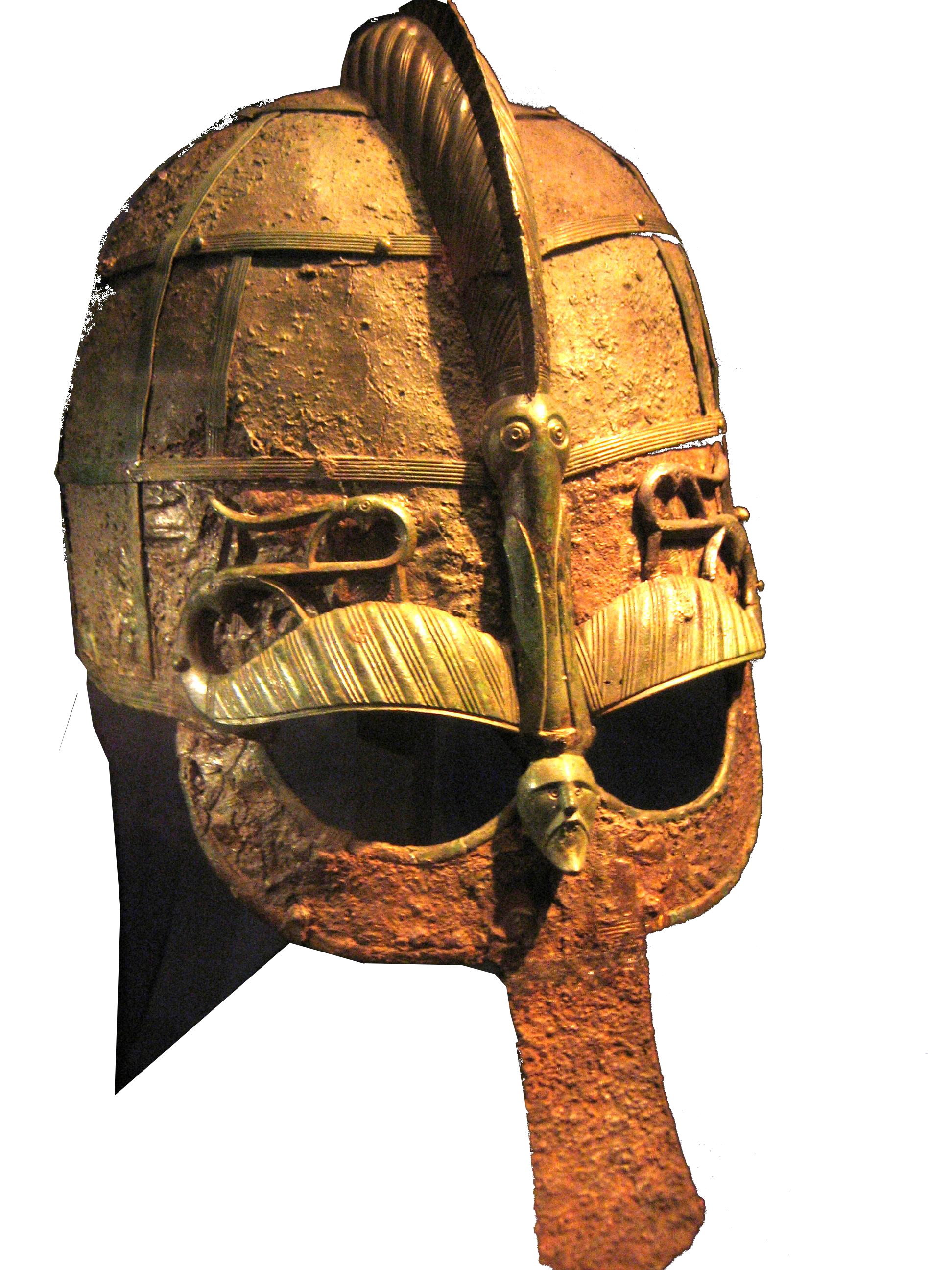 background transparent version of File:Helmet from a 7th century boat grave, Vendel era brighter.jpg